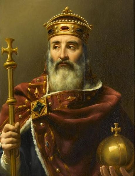 Charlemagne.